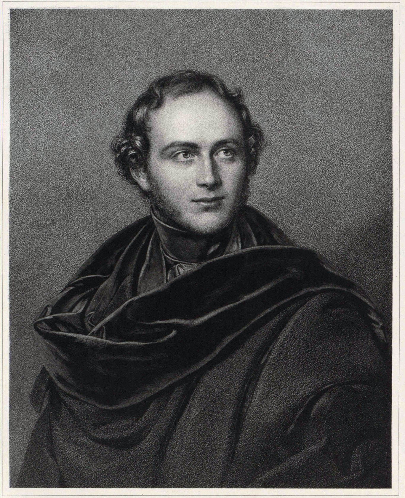 Erbprinz Constantin Joseph zu Löwenstein-Wertheim-Rosenberg (1802-1838)